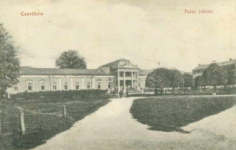 The home of the Chortkover Rebbe in Chortkov